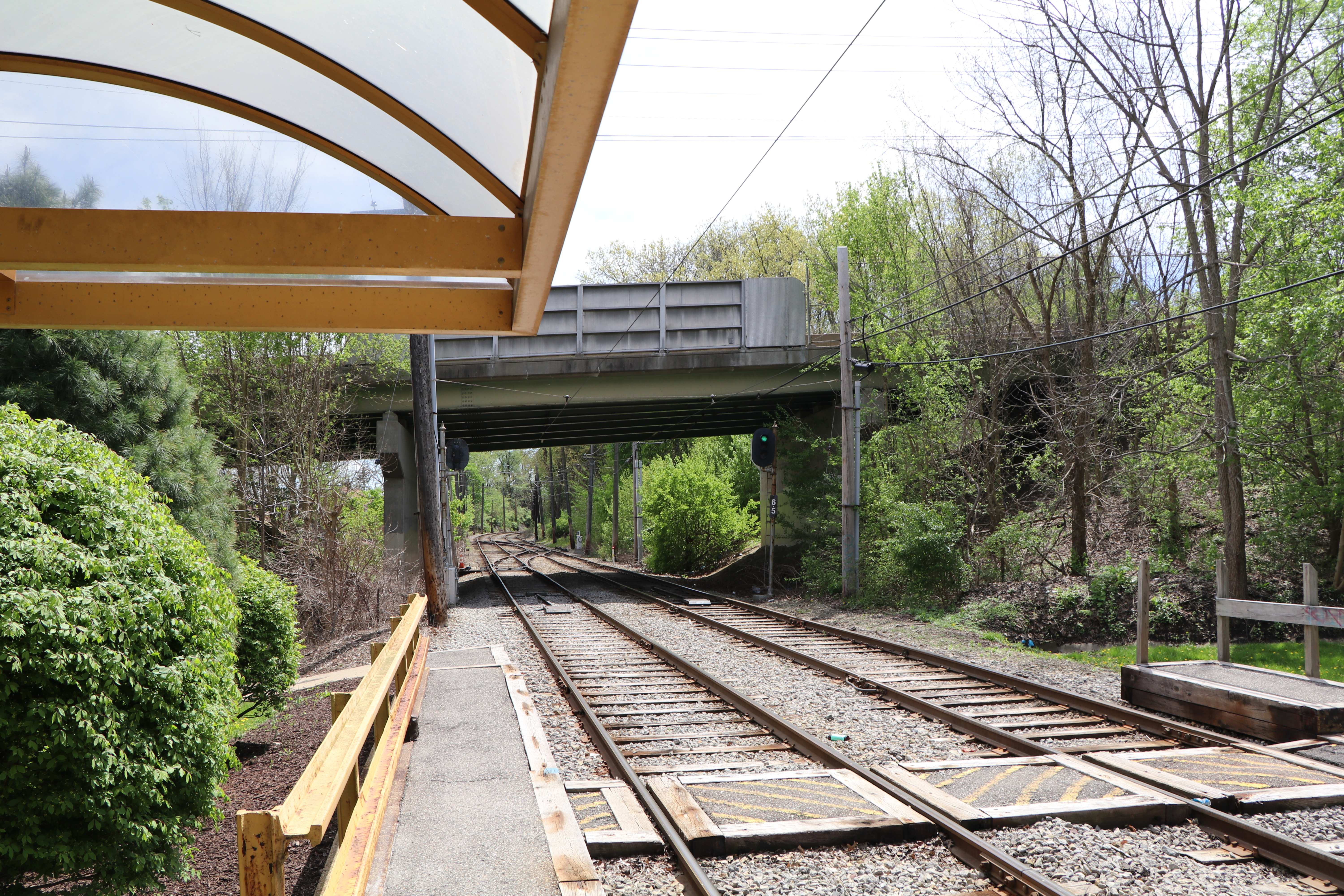 Hillcrest station on the Blue Line, Bethel Park, PA. View looking south, with the inbound platform on the left.